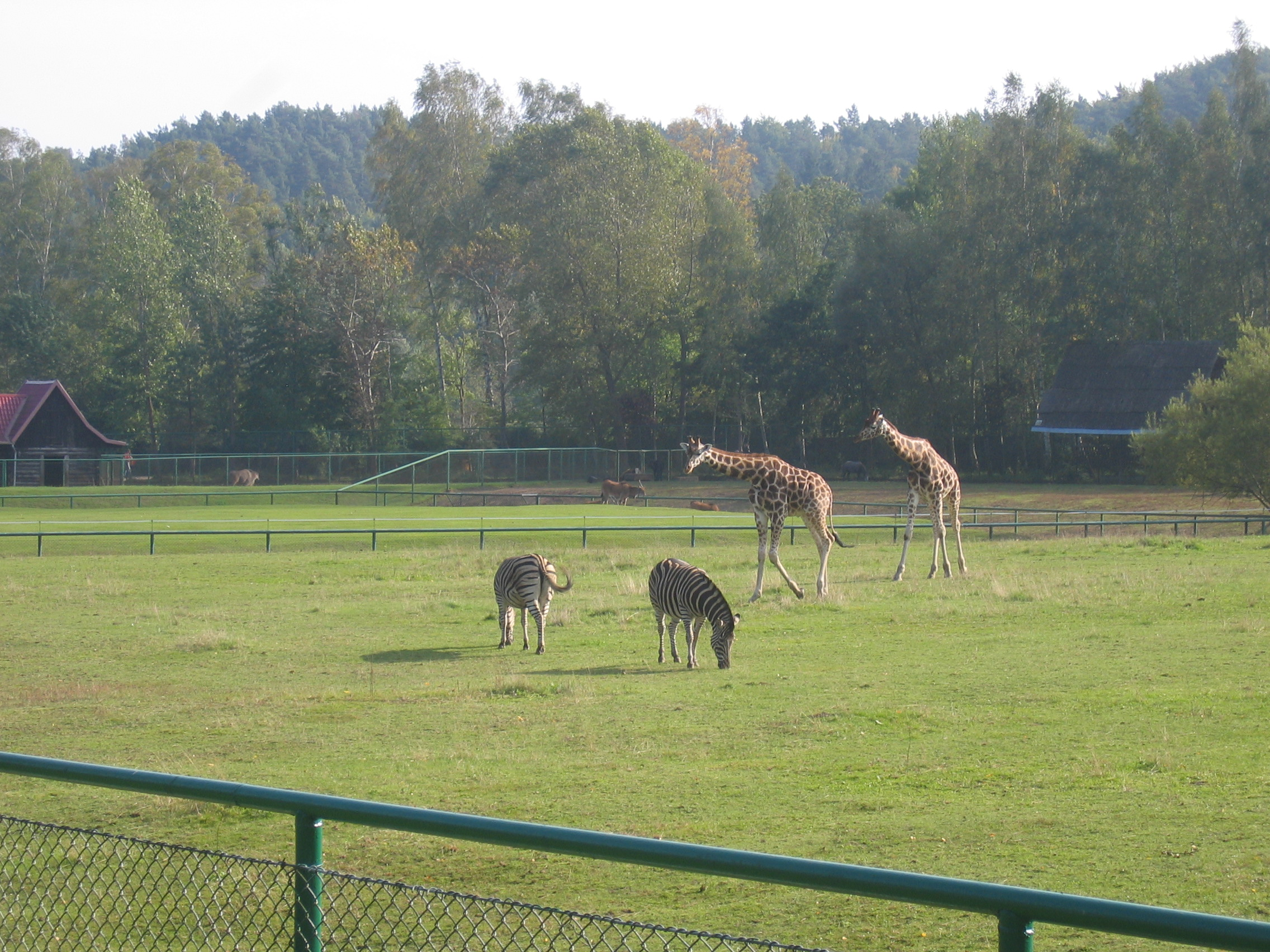 Gdańsk Oliwa, Poland, Zoo - Giraffas and Zebras